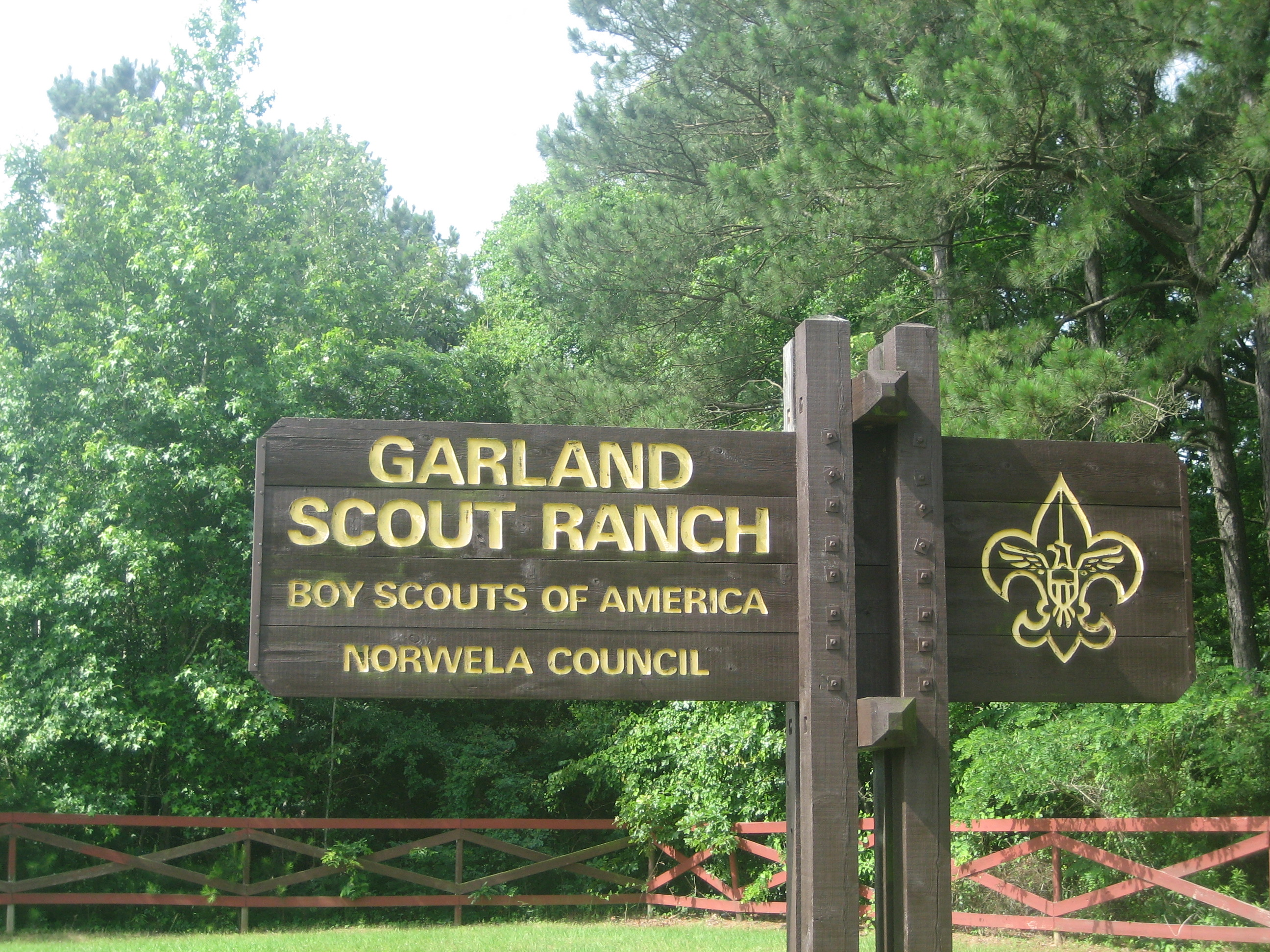 I took photo on May 27, 2009.Billy Hathorn (talk) 15:16, 31 May 2009 (UTC)